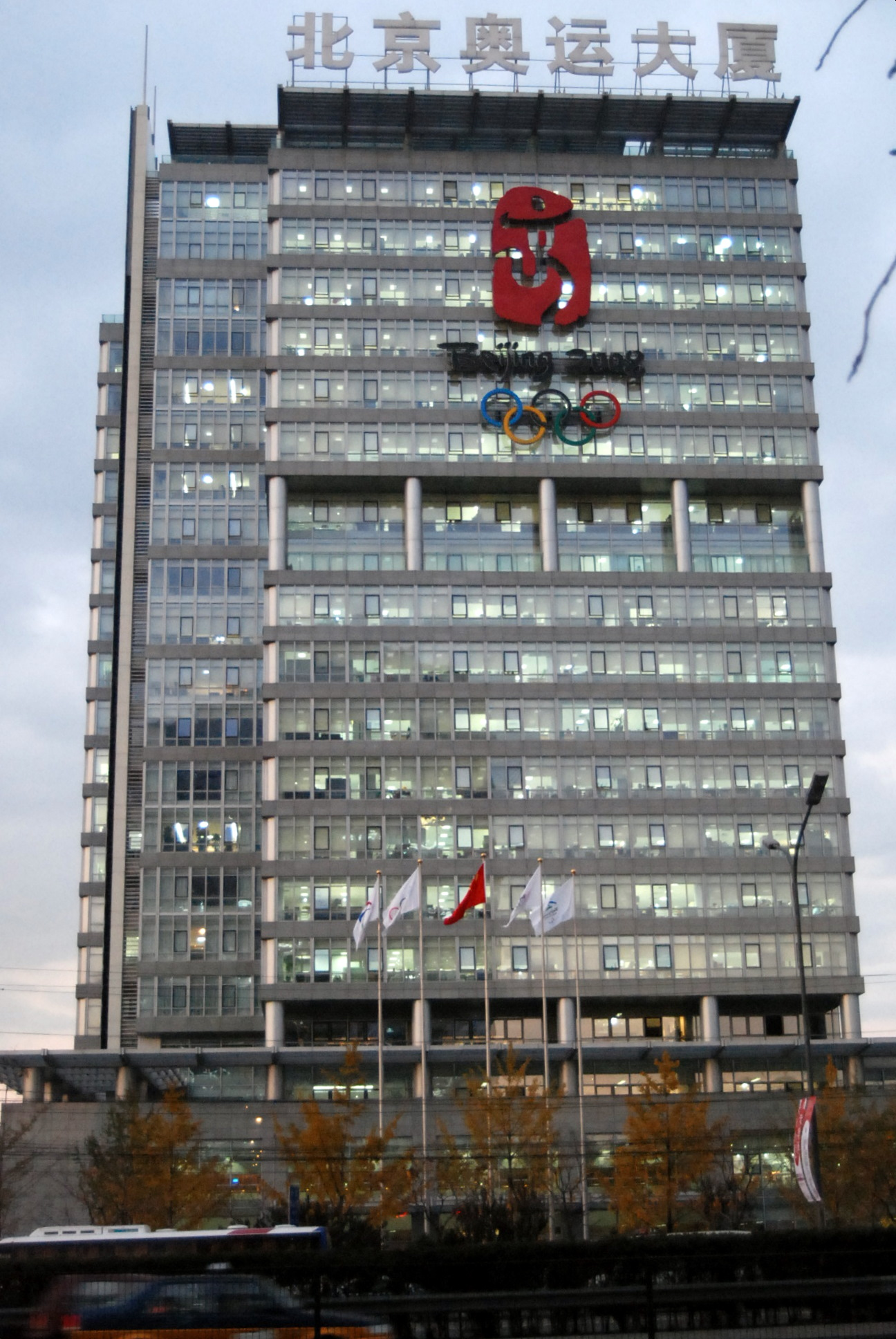 Beijing Olympic Building - Headquarters of the Beijing Municipal Commission of Education and the Beijing Civil Aircraft Technology Research Center -- 267 Beisihuanzhonglu Haidian, Beijing, 100083, P.R.China